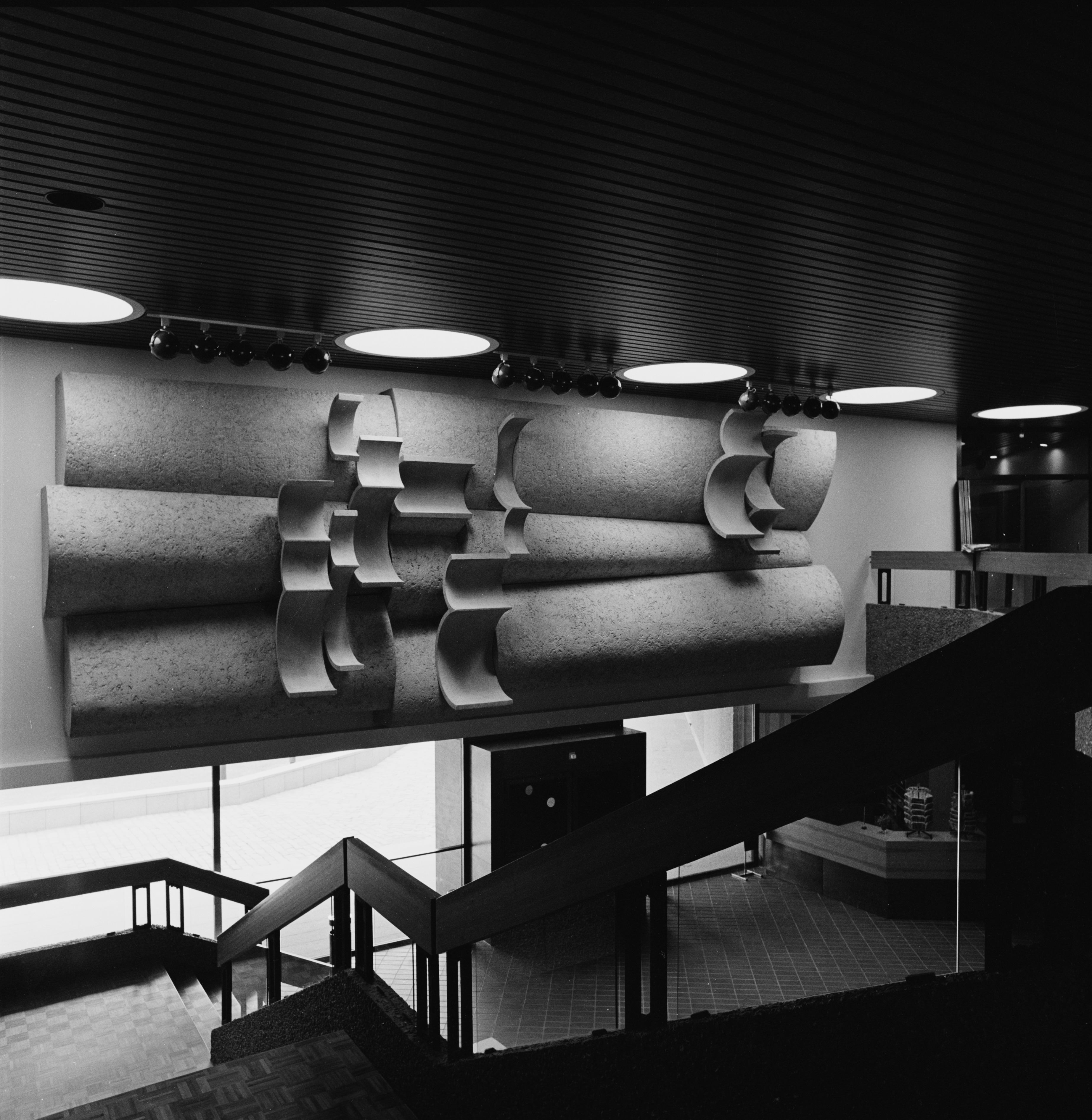 Photograph of the Finnish–Swedish Cultural Centre in Hanasaari (Hanaholmen) in Espoo. A view in the lobby, with the sculpture Vuorovaikutus by Heikki Häiväoja (1929–2019).